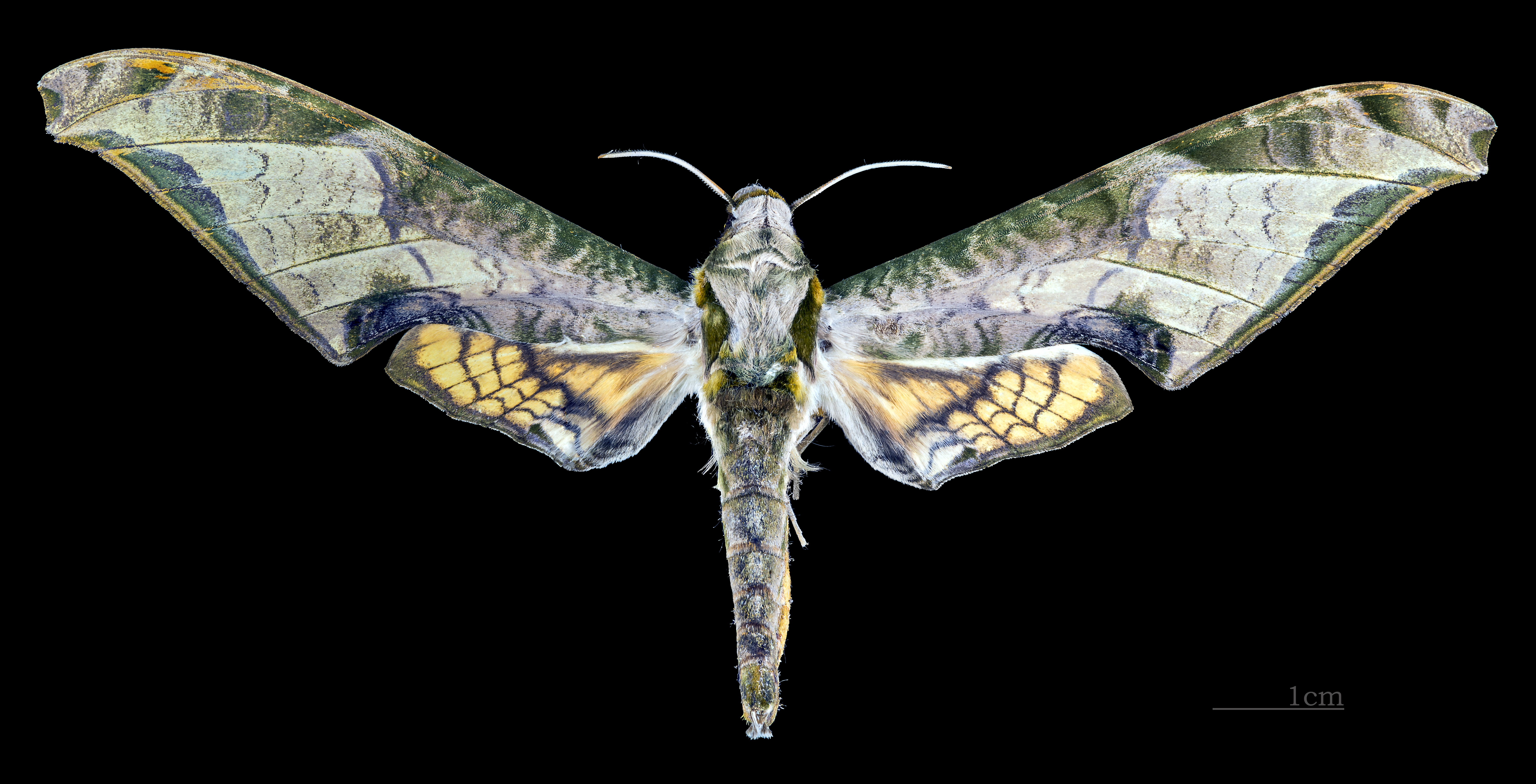 Protambulyx sulphurea - Dorsal side Collection of the Mathematician Laurent Schwartz